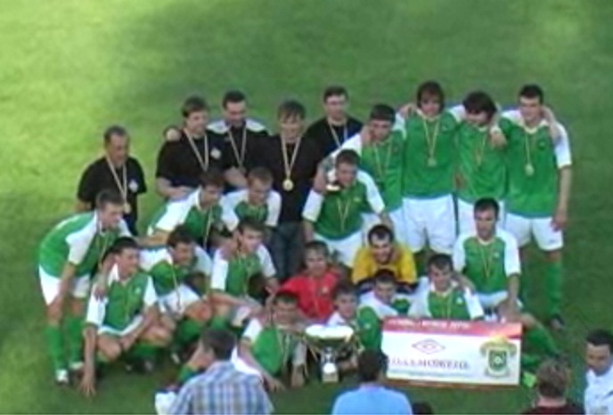 PFC_Nyva_Vinnytsia with Ukrainian League Cup after the final match. June 6, 2010.